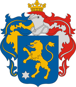 Coat of arms of Zsáka, Hungary